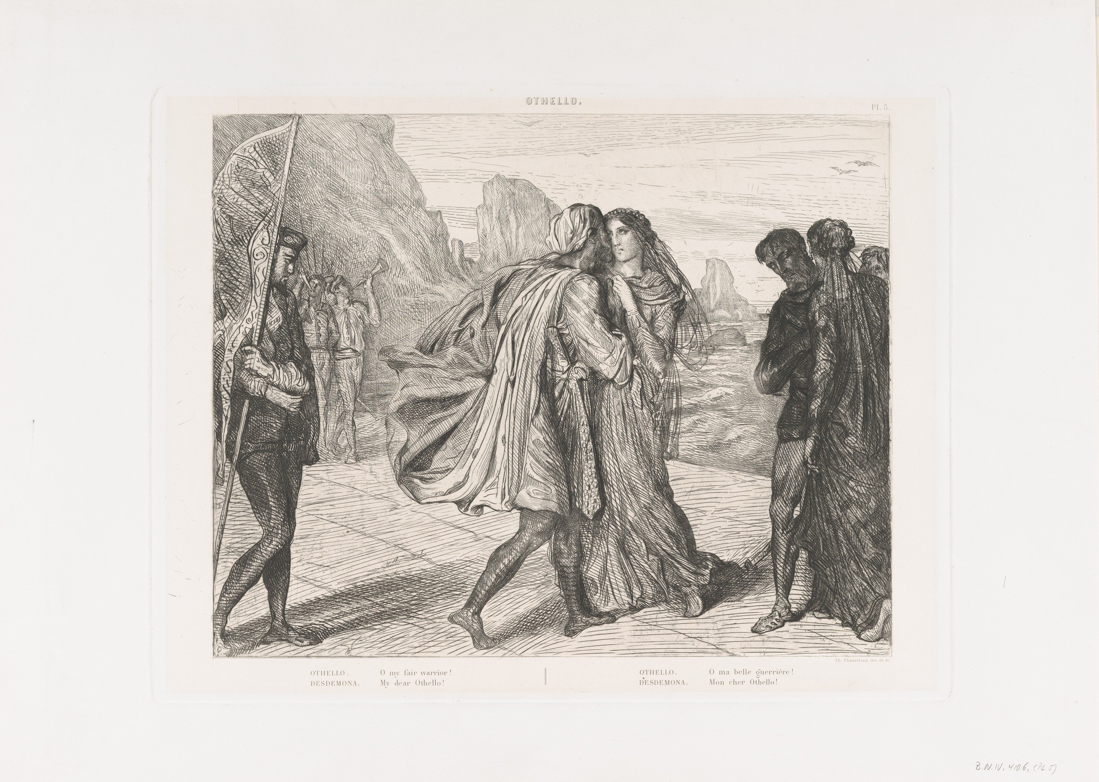 Print; Prints